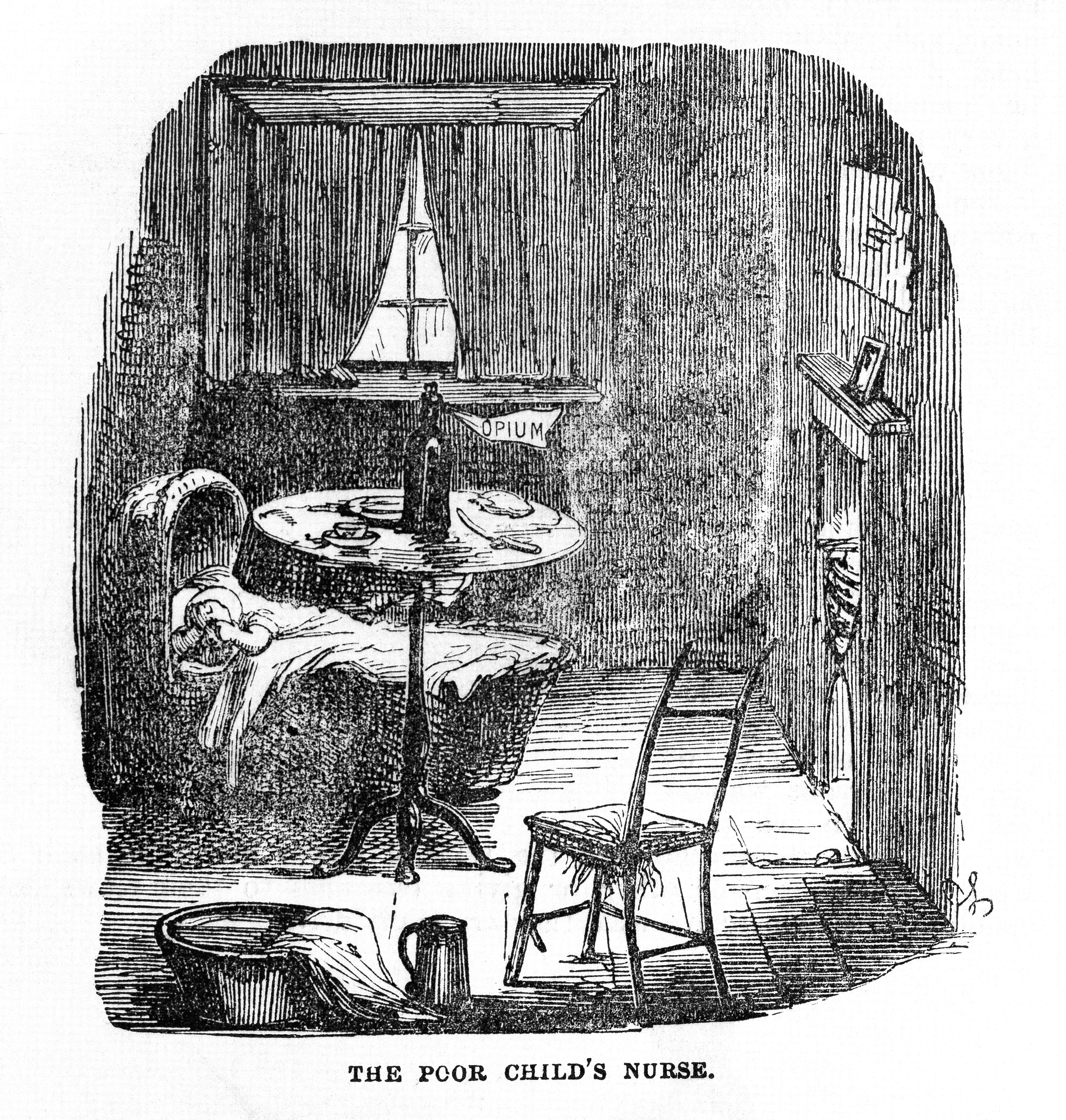 "Poor child's nurse", Print shows a bottle of opium on the table, and a young child in a cot. Wellcome Images Keywords: Baby; childcare; Poverty; Child Welfare; Narcotics